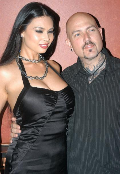 April 5 2007: XRCO Awards 2007.